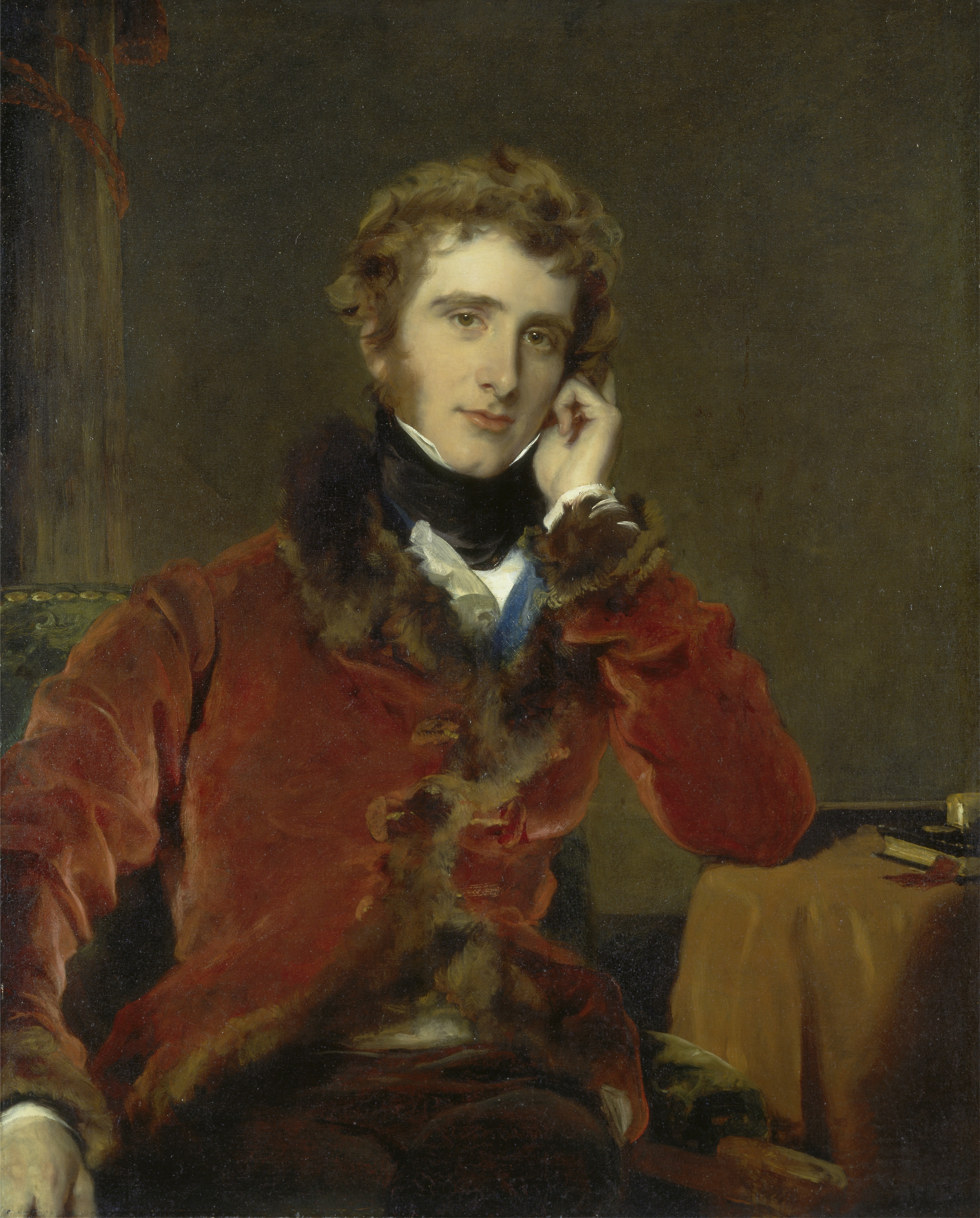 A portrait of George James Welbore Agar-Ellis, later 1st Baron Dover.